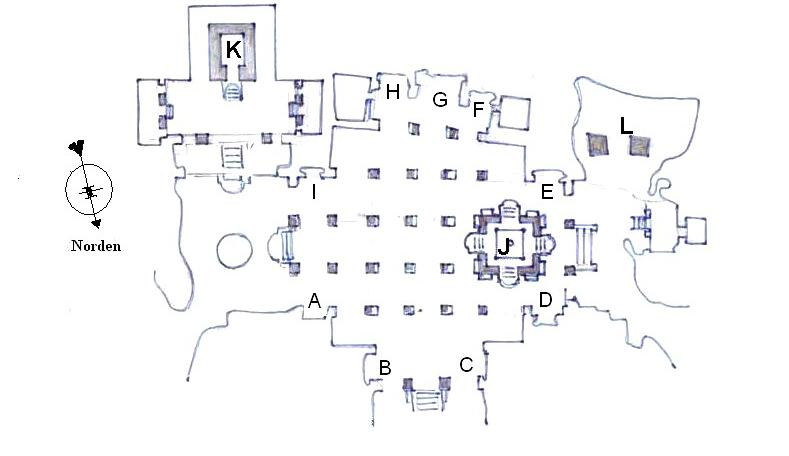 plan of elephanta cave A. At Kailasa, B. Lakulisha, C. Nataraja, D. Andhaka, E. wedding, F. Gangadhara, G. Mahadeva Trimurti H. Ardhanari, I. Shiva and Ravana (The game of dice), J and K Shiva Linga Shrine, L. water cistern